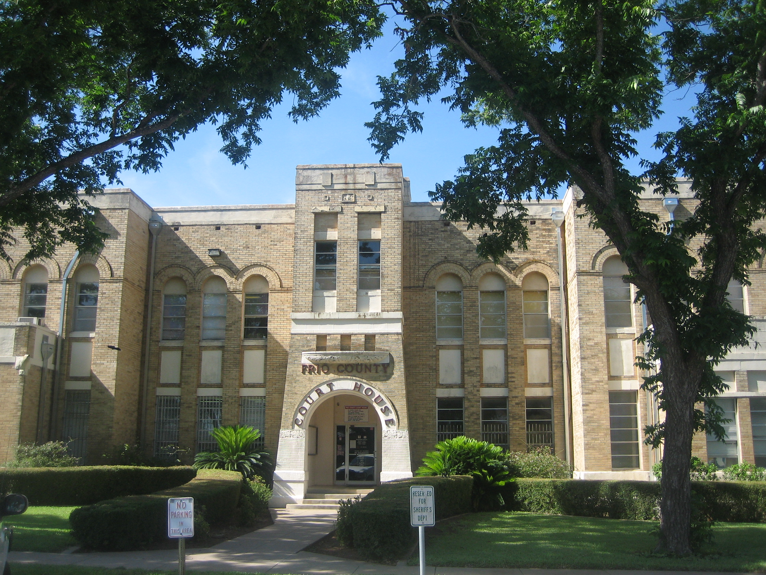 Frio County, Texas courthouse. I took photo on May 19, 2009.Billy Hathorn (talk) 16:30, 30 May 2009 (UTC)